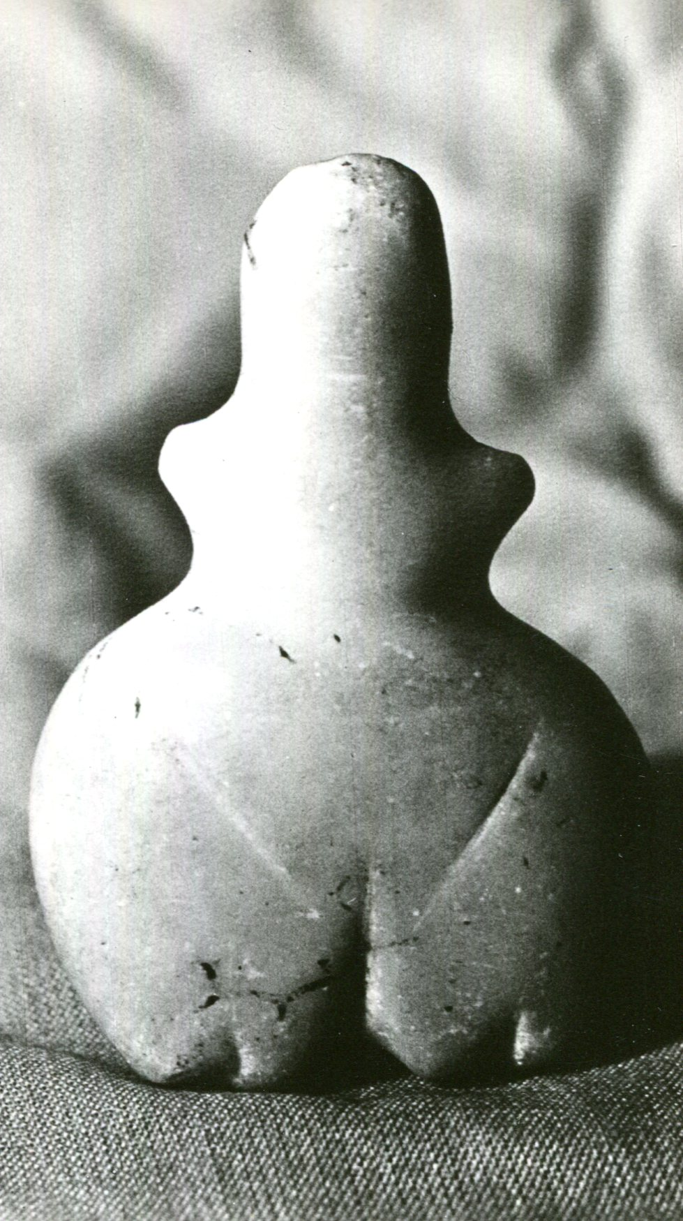 Marble figurine ("idol") from the Azmash barrow (found 1963). Middle Neolithic, 5000 BC, ht. 68 mm